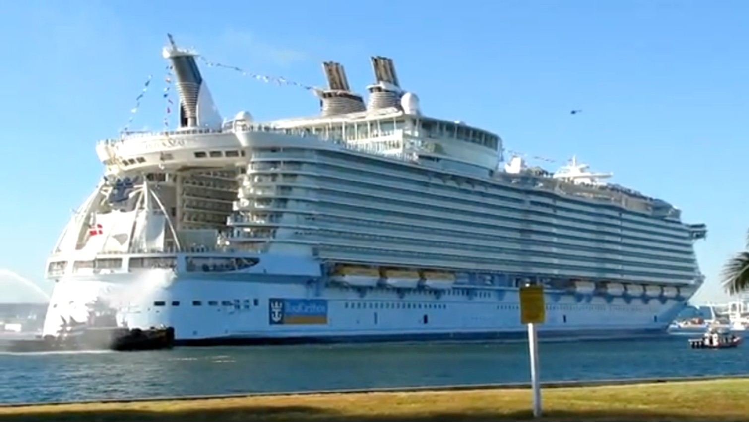 Royal Caribbean International's, "MS Oasis of the Seas", captured as she makes her way into Port Everglades, Florida completing her 14-day delivery voyage from STX Europe, Turku, Finland.